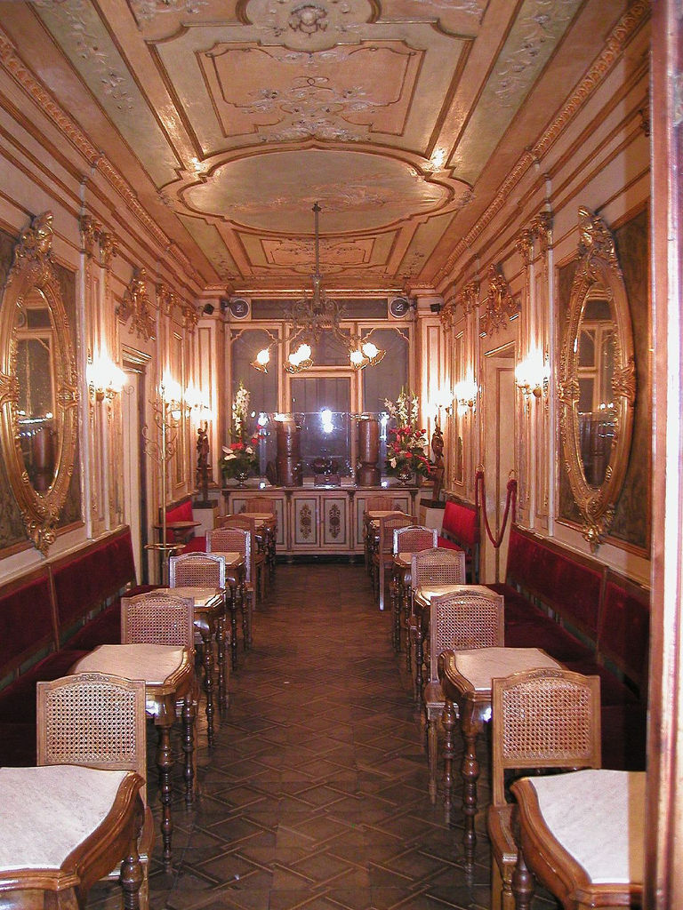 The Caffè Florian in Venice, Italy. The Caffè Florian, in Piazza San Marco square, dates back to the 18th century, and still preserves its 19th century qualities.